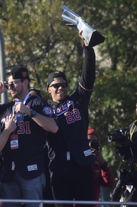 Juan Soto at the Nationals Championship Parade On 11/2/19 following the Nationals World Series Victory over the Houston Astros